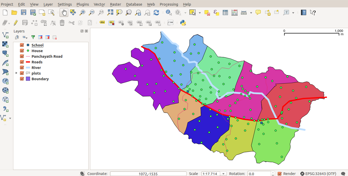 This is a screenshot of QGIS 2.8 Wien.